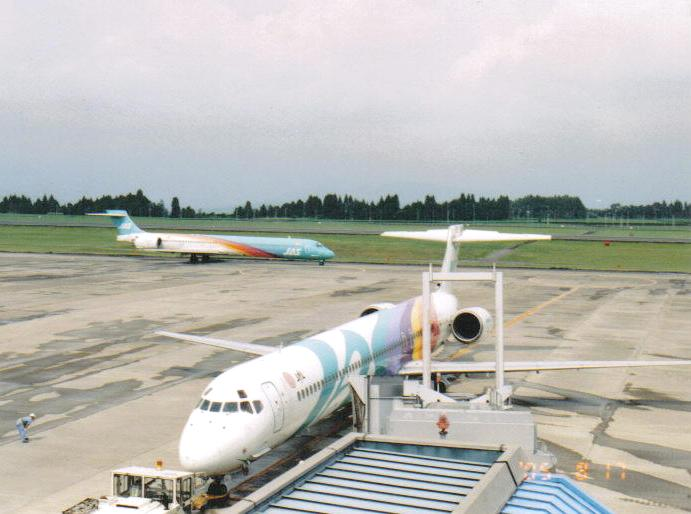 A Japan Air System DC-9, with a livery designed by Akira Kurosawa